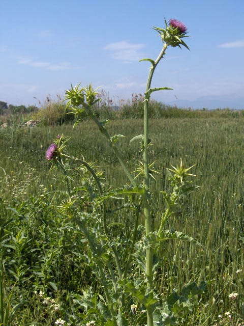 Species Silybum marianum Family Asteraceae Location Side, Antalya province, Turkey